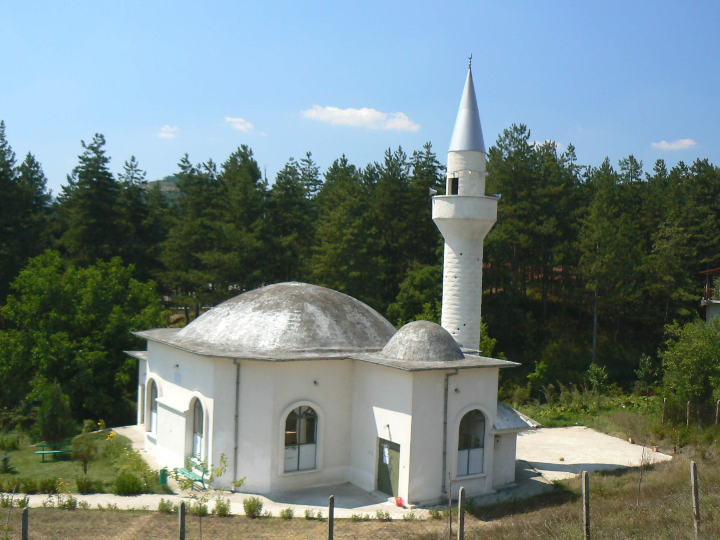 The mosque of village Chernoochene, Bulgaria